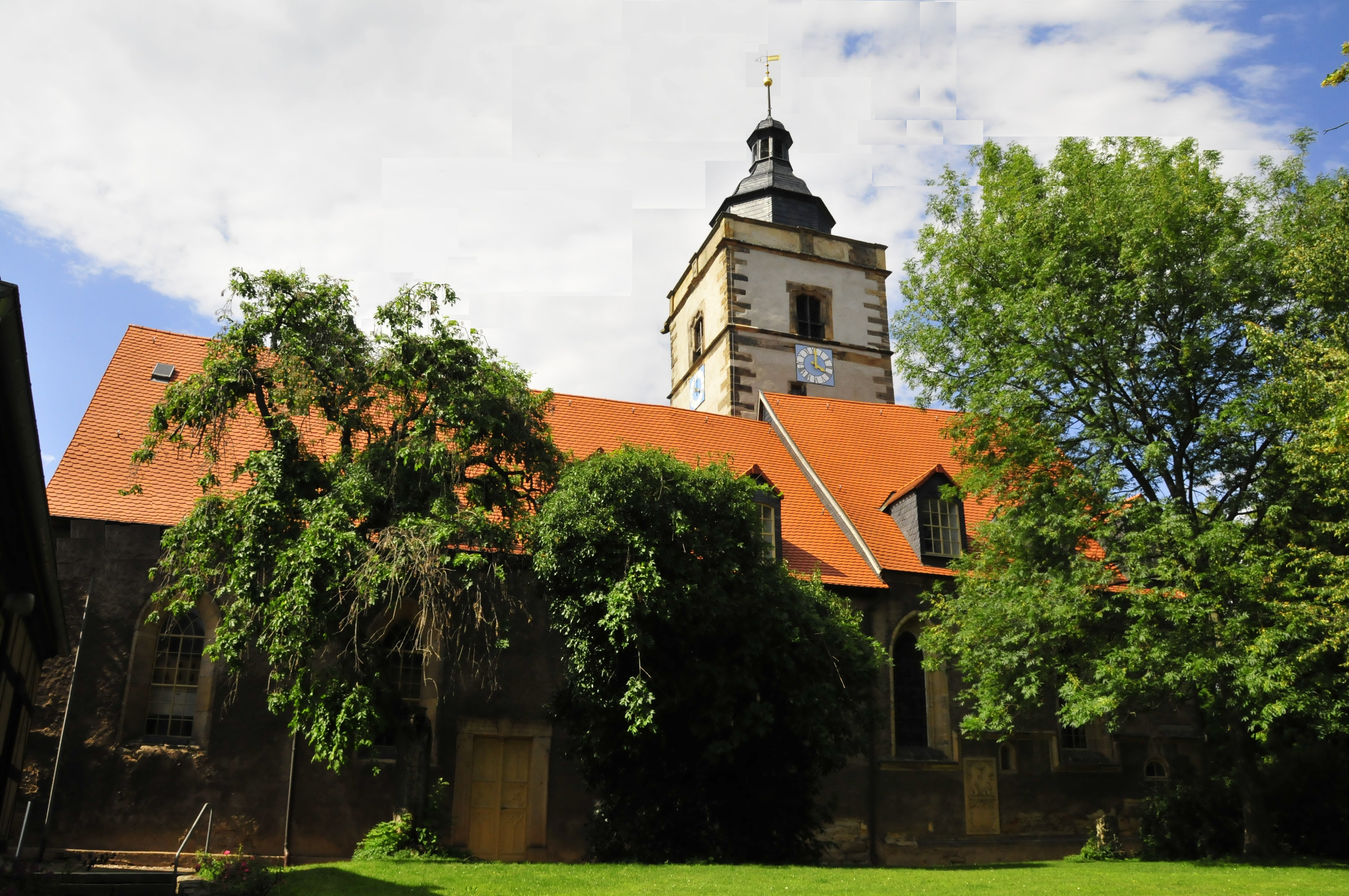 Molschleben, church